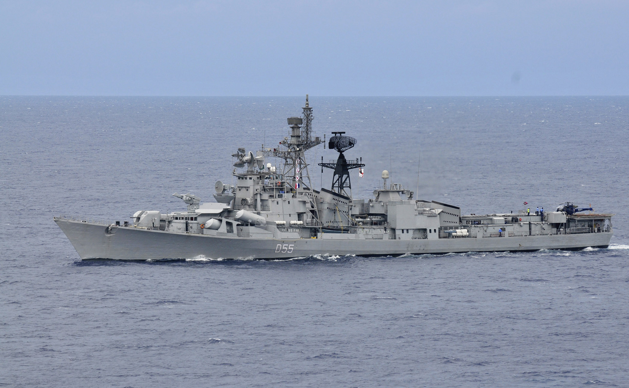 BAY OF BENGAL (April 14, 2012) - Indian navy guided-missile destroyer INS Ranvijay (D55) steams in formation during Exercise Malabar 2012. U.S. Navy Carrier Strike Group (CSG) 1 is participating in the annual bi-lateral naval field training exercise with the Indian navy to advance multinational maritime relationships and mutual security issues. (U.S. Navy photo by Mass Communication Specialist Seaman George M. Bell